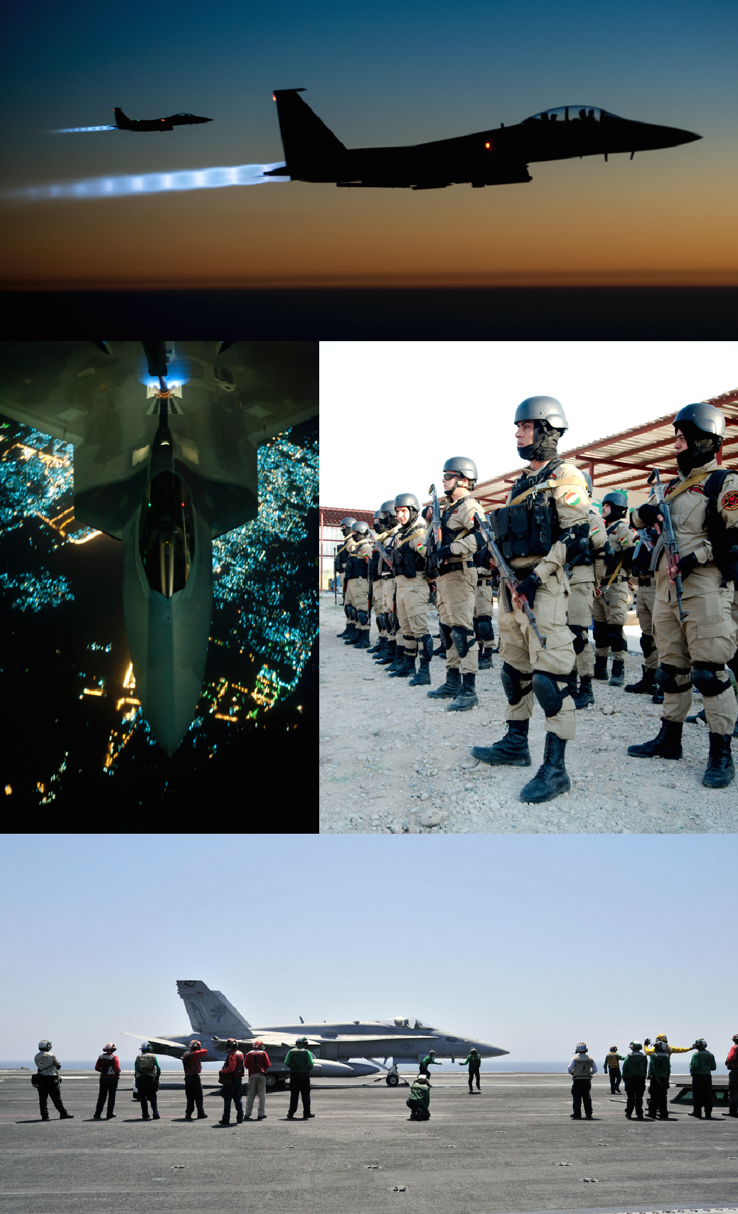 Collage of 2014 military intervention against ISIS.